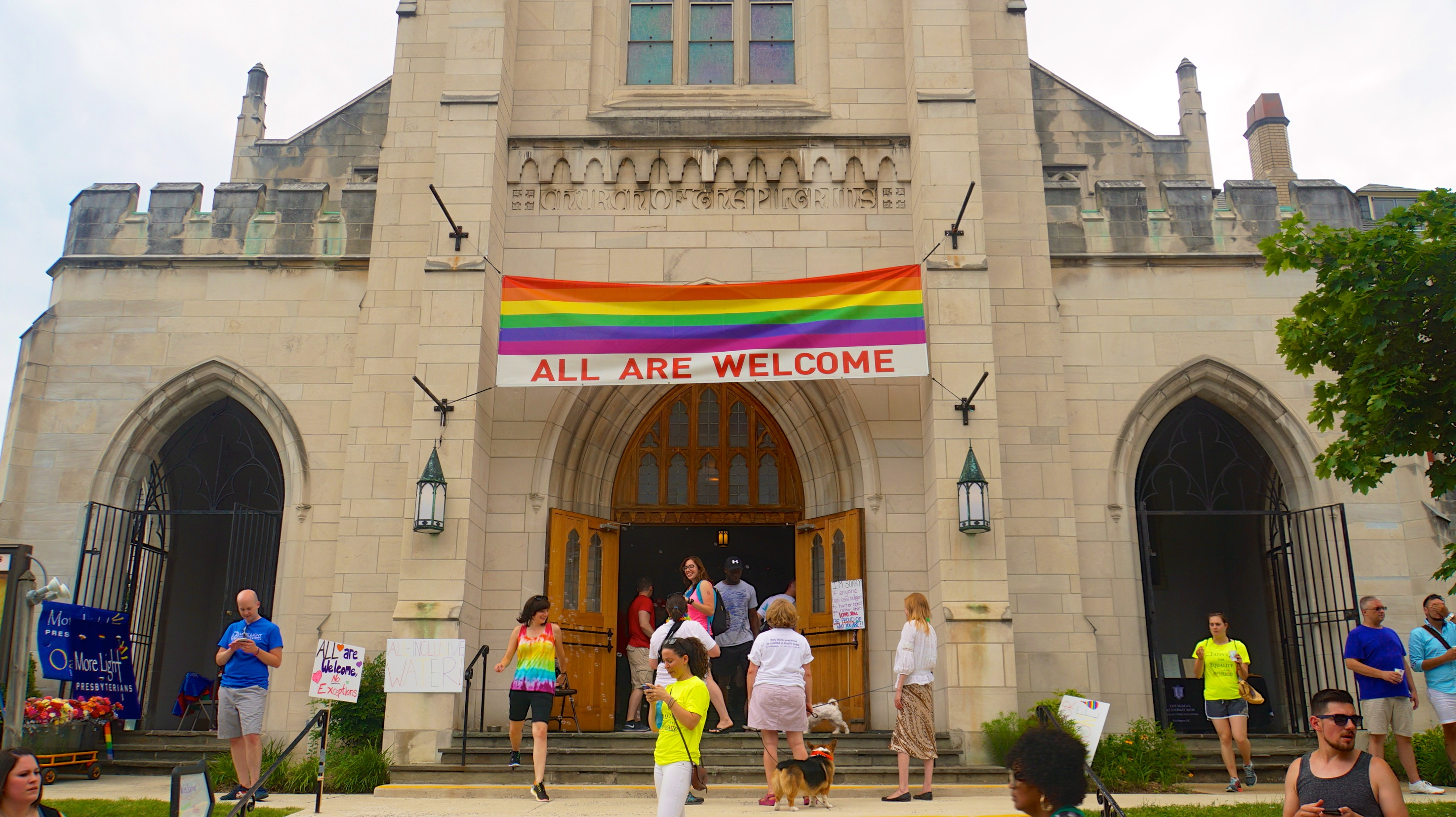 Kaiser Permanente Mid-Atlantic States is a Gold Sponsor of Capital Pride, and a Platinum sponsor of Capital TransPride